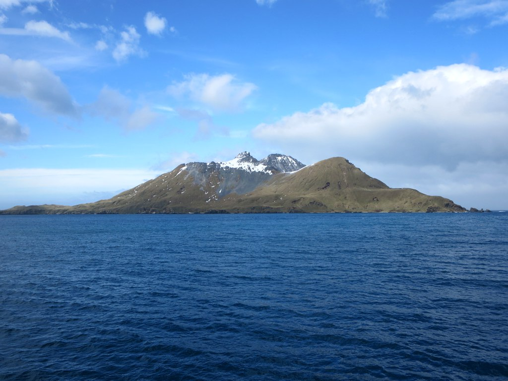 Cooper Island off the southeast end of South Georgia Island is classified as a "Specially Protected Area" and tourist visits are not allowed.